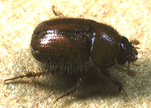 Ochodaeus spec.